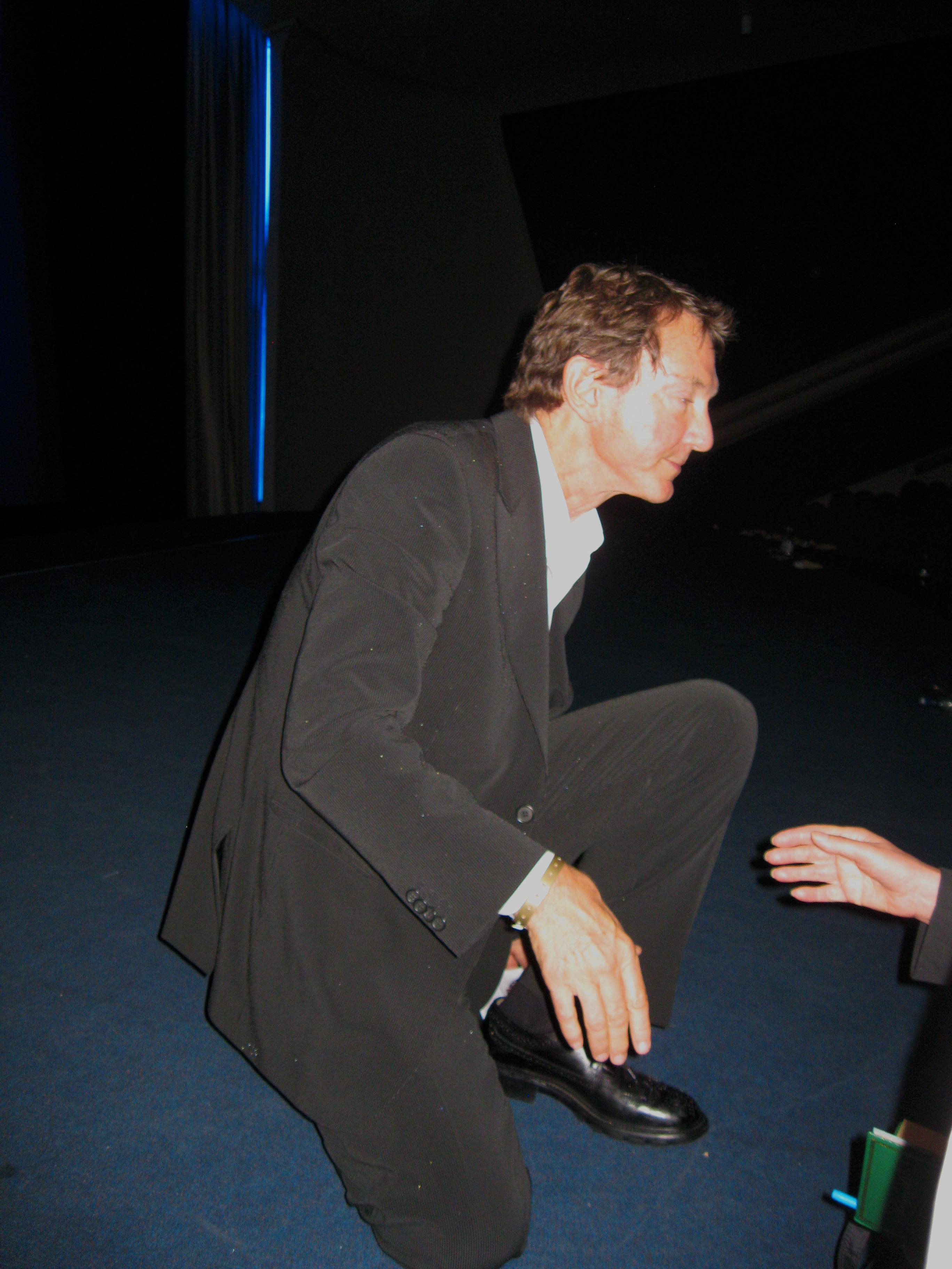 John G. Branca (Entertainment Lawyer) at the London premier of Bad 25. The film was directed by Spike Lee and focused upon the creative process of Michael Jackson and others for the Bad album and short films.